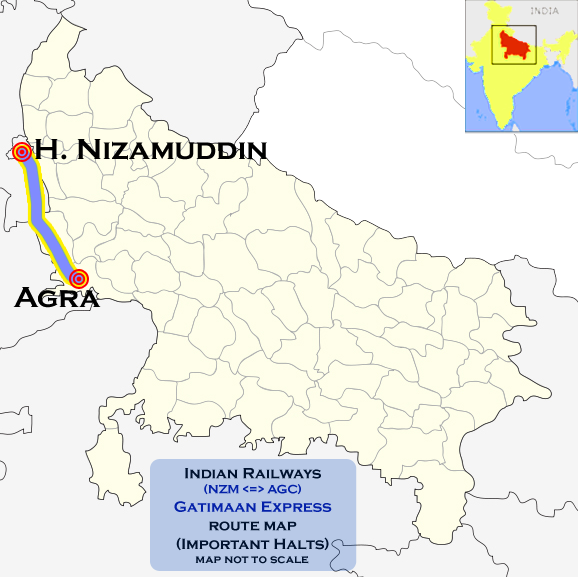 Gatimaan Express (Agra - Nizamuddin) route map